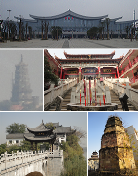 Montage of various Hengyang images